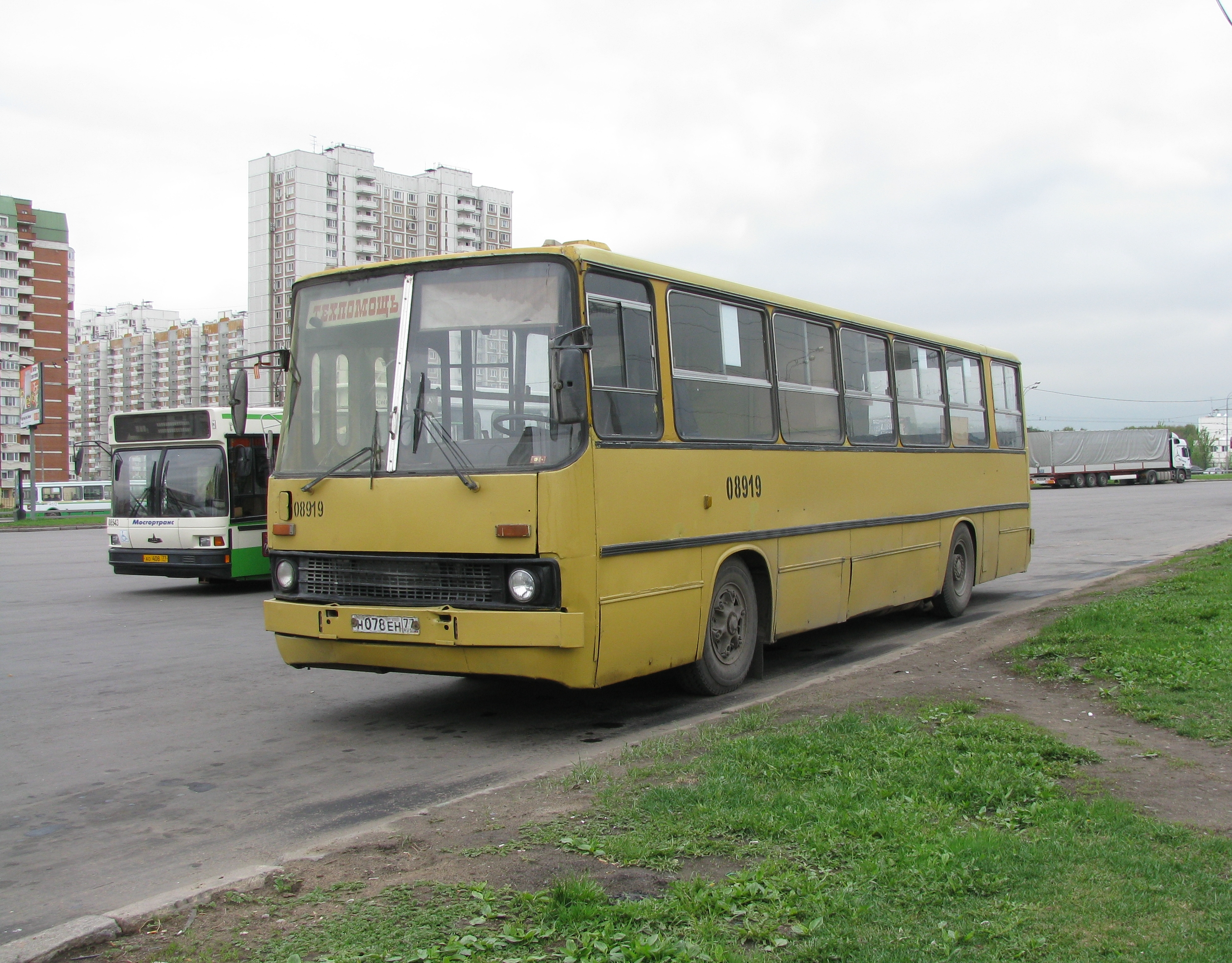 Ikarus 260 (former 280) in Moscow